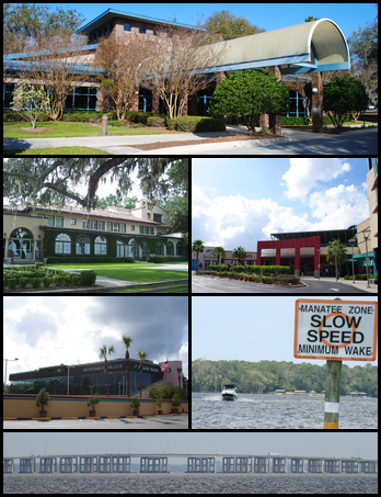 Orange Park, Florida. (photographed by user:Ebyabe) File:DoctorsLakeOP2.jpg (photographed by me but uploaded to my old account)